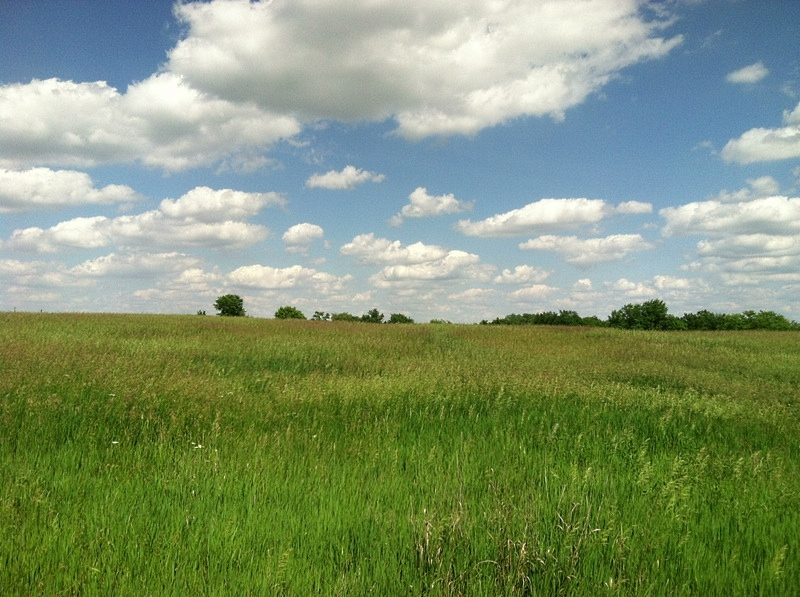 Looking E across a shortgrass prairie near Holton, KS, USA